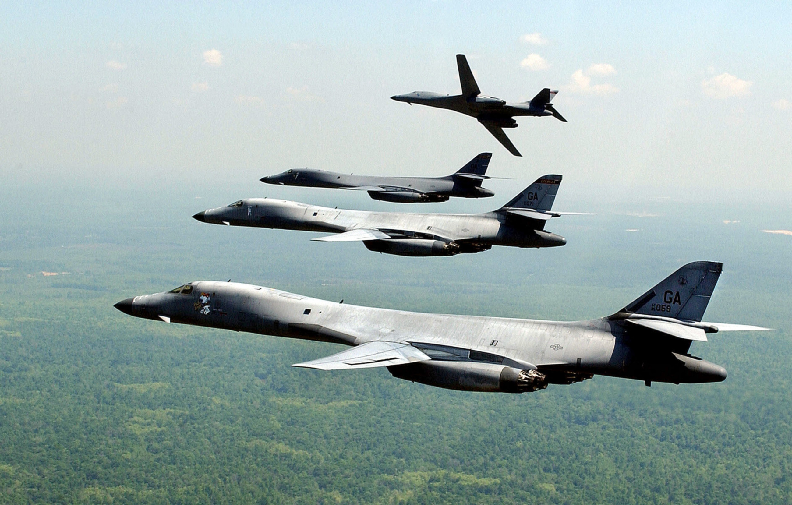 Four U.S. Air Force Rockwell B-1B Lancer from the 128th Bomb Squadron, 116th Bomb Wing, Georgia Air National Guard, in flight over Georgia (USA) on 19 April 2002.